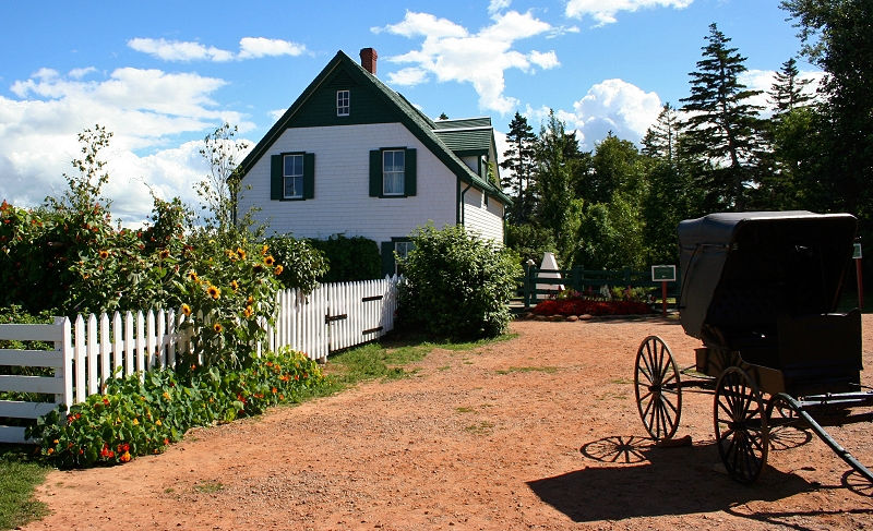 The Green Gables farmhouse